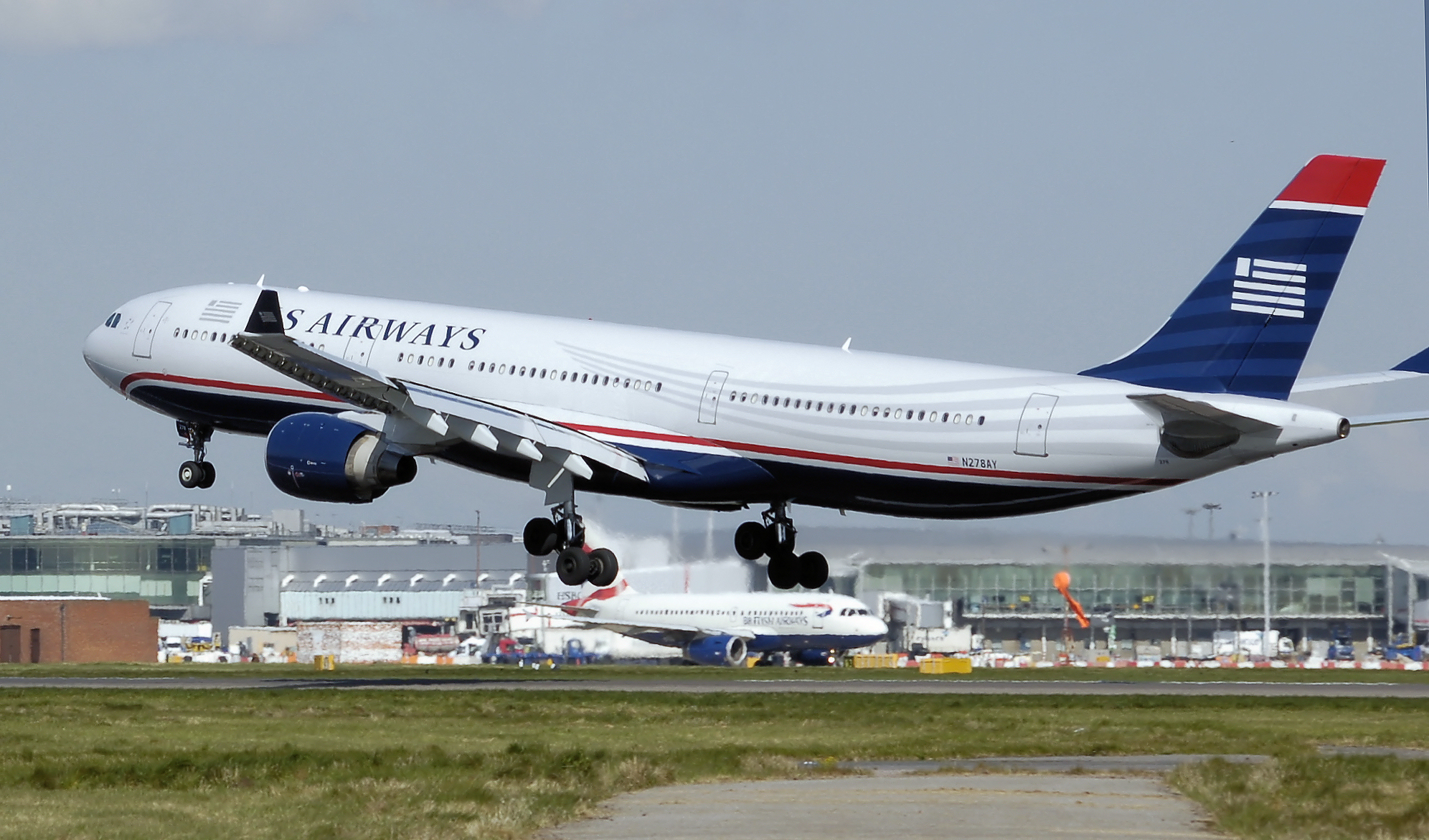 US Airways Airbus A330-300 (N278AY) lands at London Heathrow Airport, England. The blurry background is mainly due to heat haze (quite surprising on April 15th in England, although it was a very sunny day).